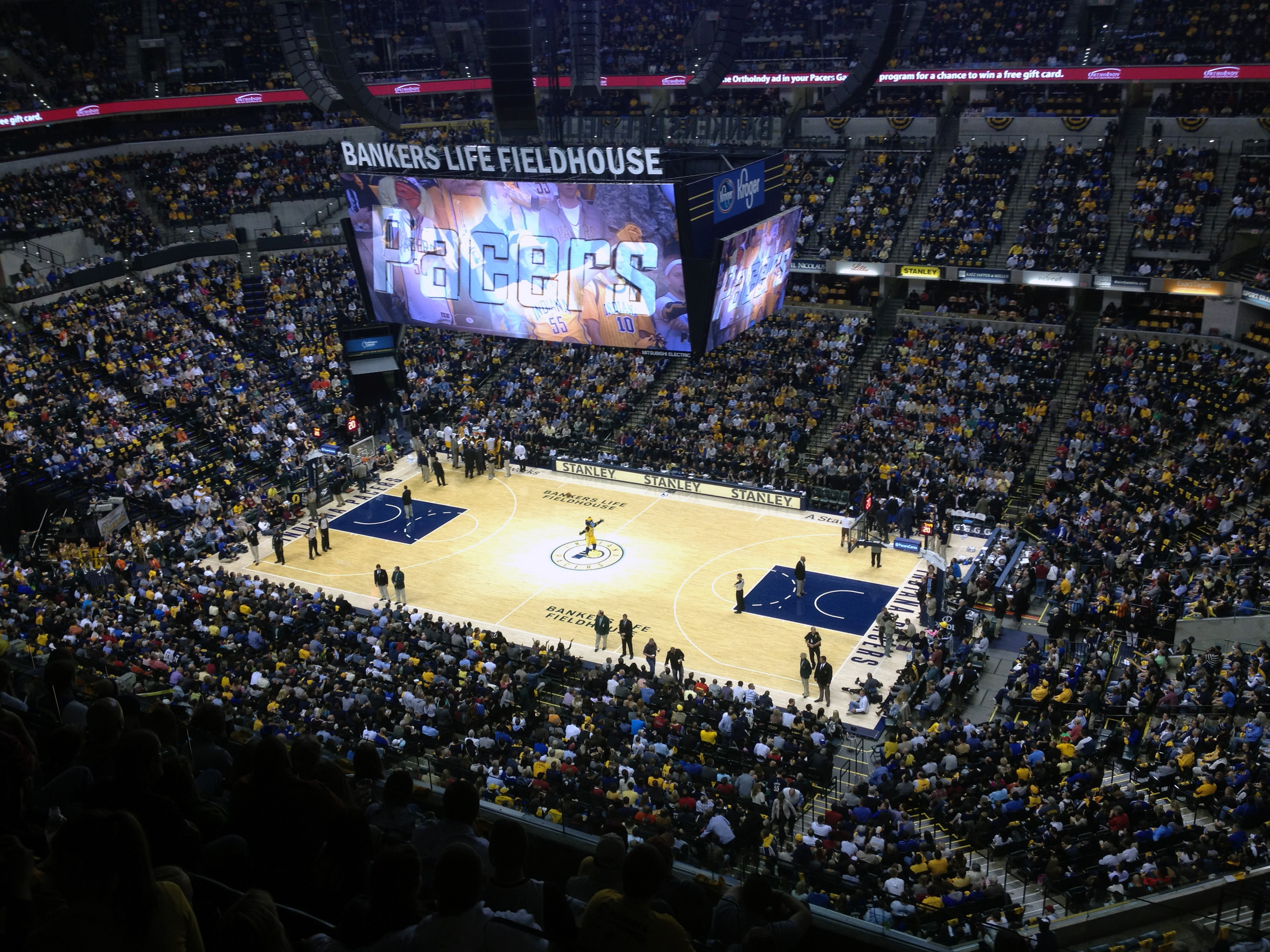 Bankers Life Fieldhouse, Indianapolis, USA.